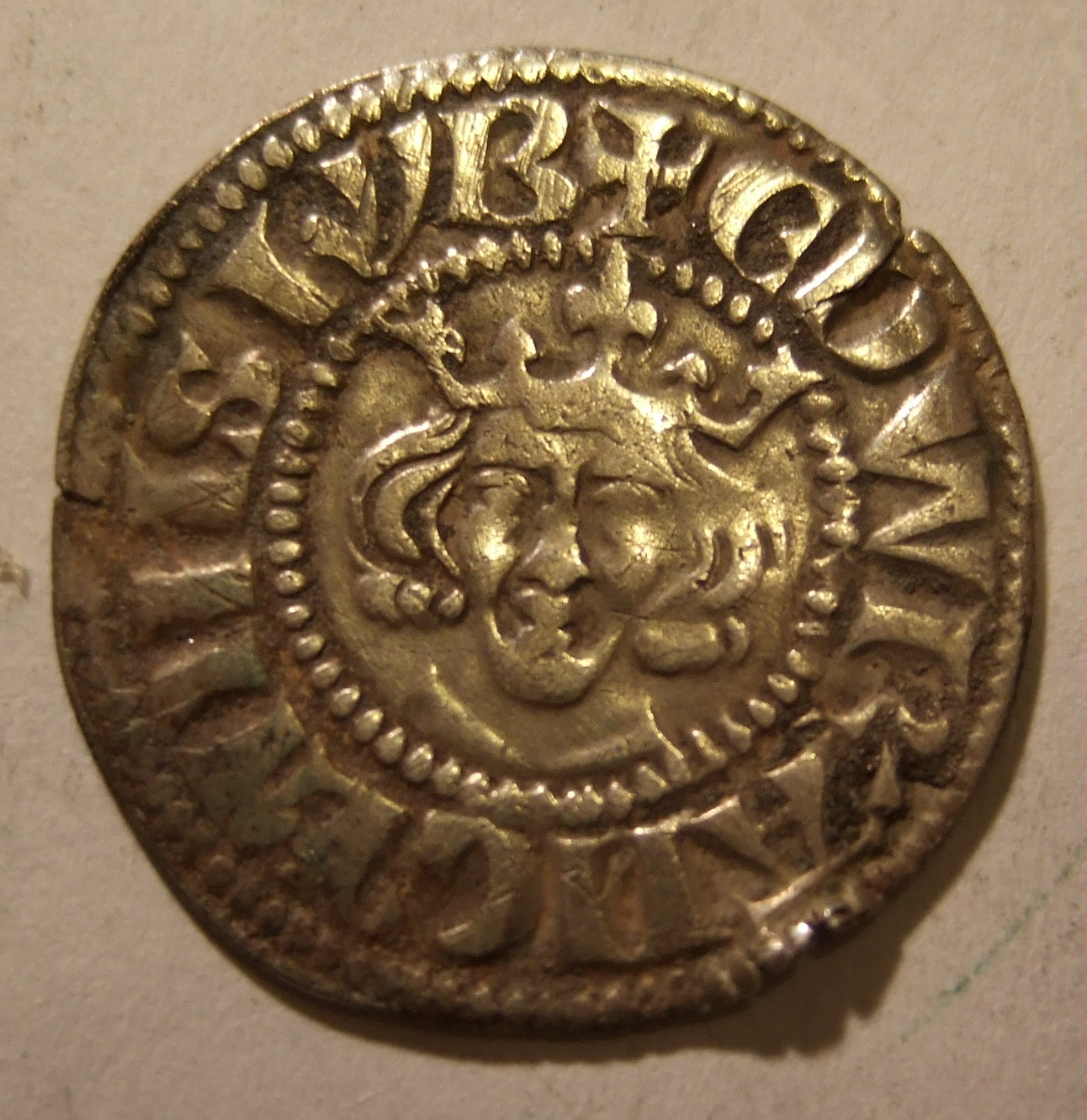 Edward I, Longshanks, (born June 17, 1239, Westminster, Middlesex, Eng. — died July 7, 1307, Burgh by Sands, near Carlisle, Cumberland) King of England (1272 – 1307). The eldest son of Henry III, he supported his father in a civil war with the barons, but his violent temper contributed to Henry's defeat at the Battle of Lewes (1264). Edward triumphed over the rebels in the following year when he defeated them and slew their leader at Evesham. Edward joined the abortive Crusade of Louis IX of France (the Eighth Crusade) in 1271 – 72, then returned to England to succeed his father. His reign was a time of rising national consciousness, in which he strengthened the crown against the nobility. He fostered the development of Parliament and played an important role in defining English common law. He conquered Wales (1277) and crushed Welsh uprisings against English rule, but his conquest of Scotland (1296), including the defeat of William Wallace, was undone by later revolts. He expelled the Jews from England in 1290; they would not be readmitted until 1655. He died on a campaign against Robert I, who had proclaimed himself king of Scotland the previous year.